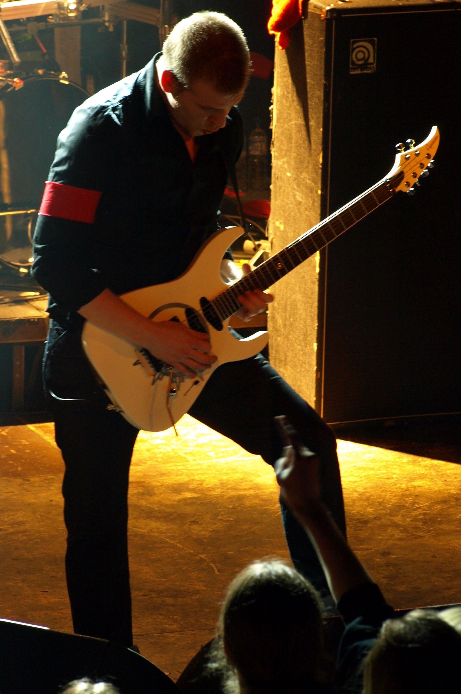 Swedish melodic death metal band Arch Enemy